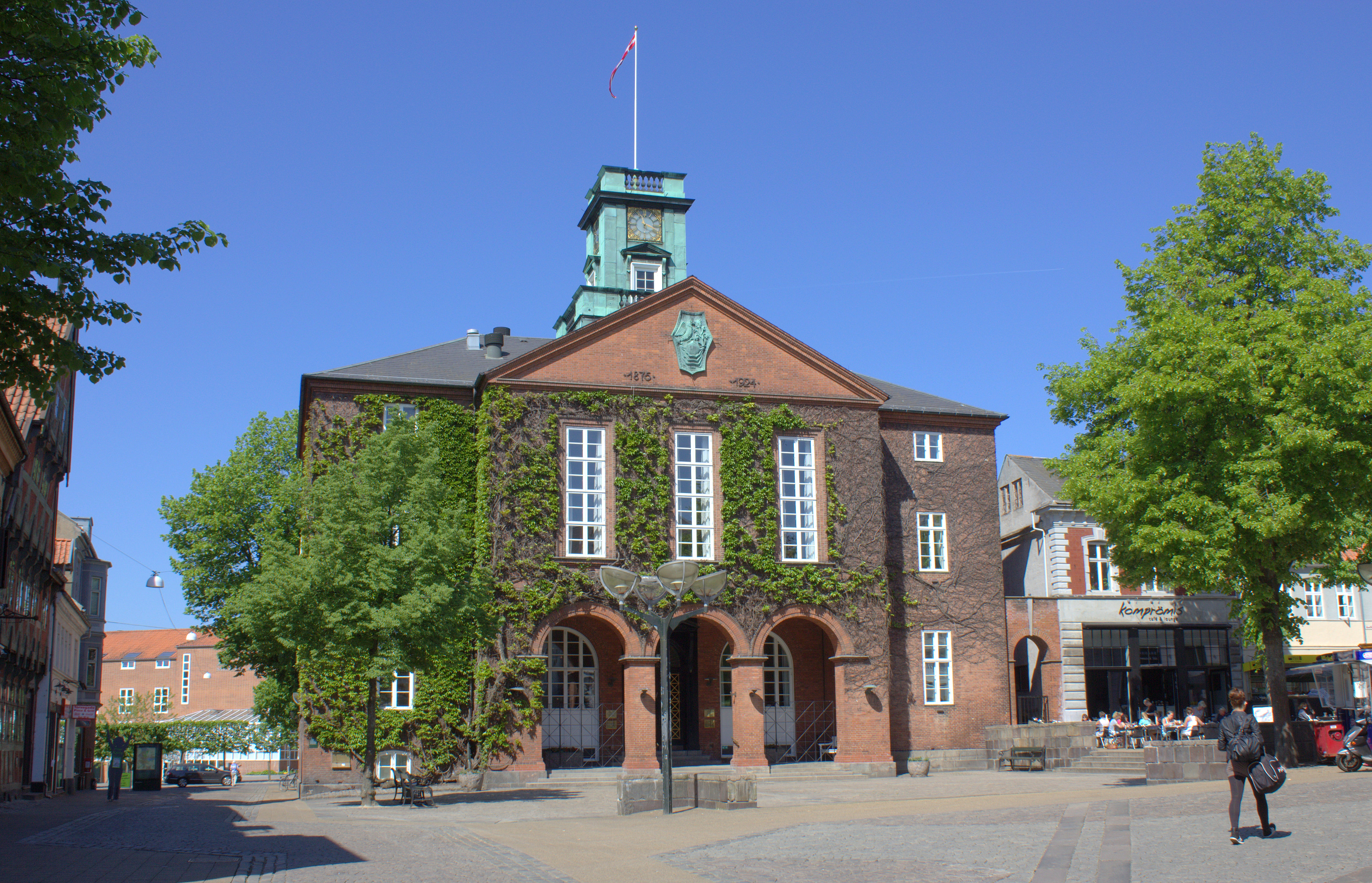 There have been town hall on the site since the 1500's. Kolding Town Hall 2012 in Kolding, Denmark. Built in 1875. The architect is L.A. Winstrup.